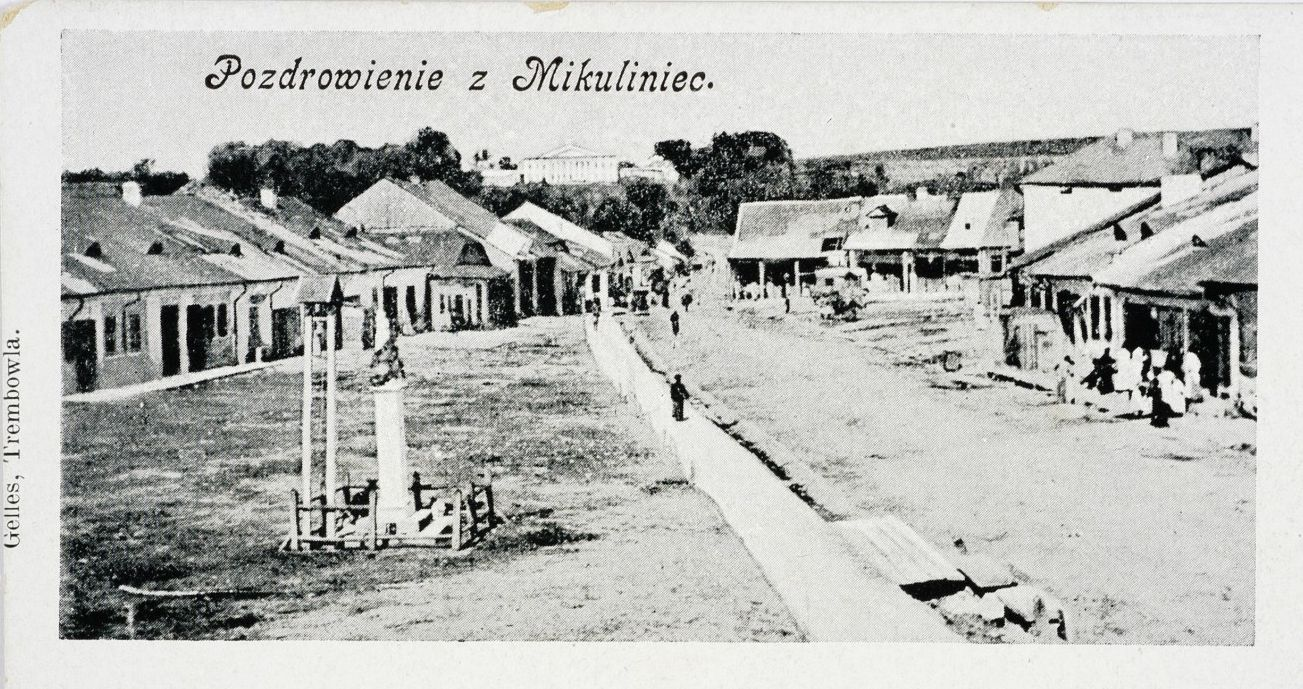 Post card